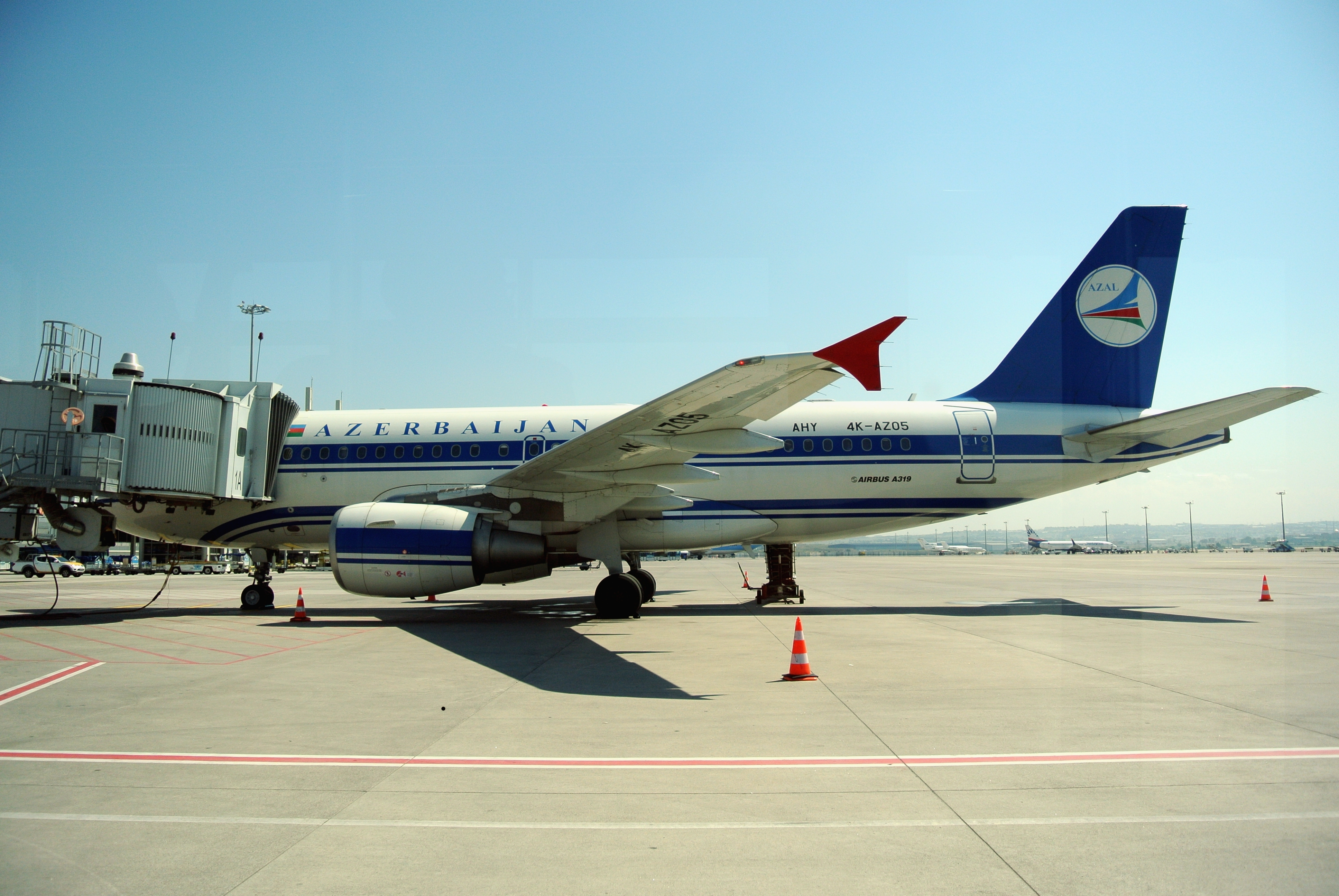 Azerbaijan Airlines aircraft (Airbus A319 4K-AZ05) at Sabiha Gökçen International Airport.